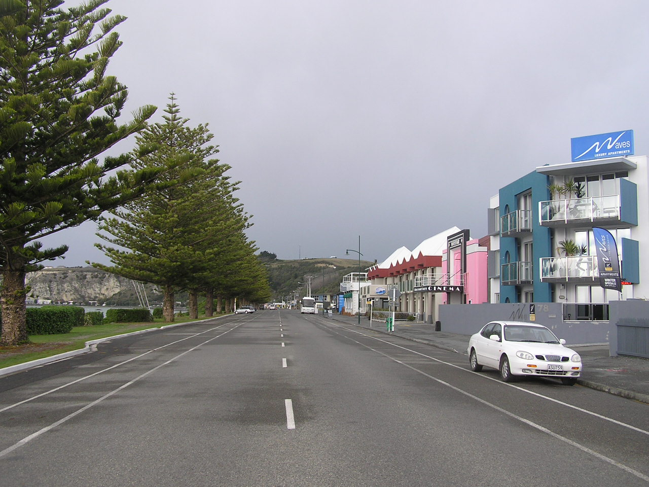 Esplanade Street, Kaikoura